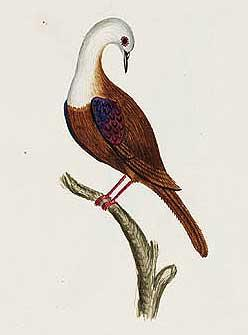 Norfolk Island Ground Dove (Gallicolumba norfolciensis) artwork by ? from 'Album of watercolour drawings of Australian natural history' from the year ca. 1800 by courtesy of Jennifer Broomhead / State Library of New South Wales